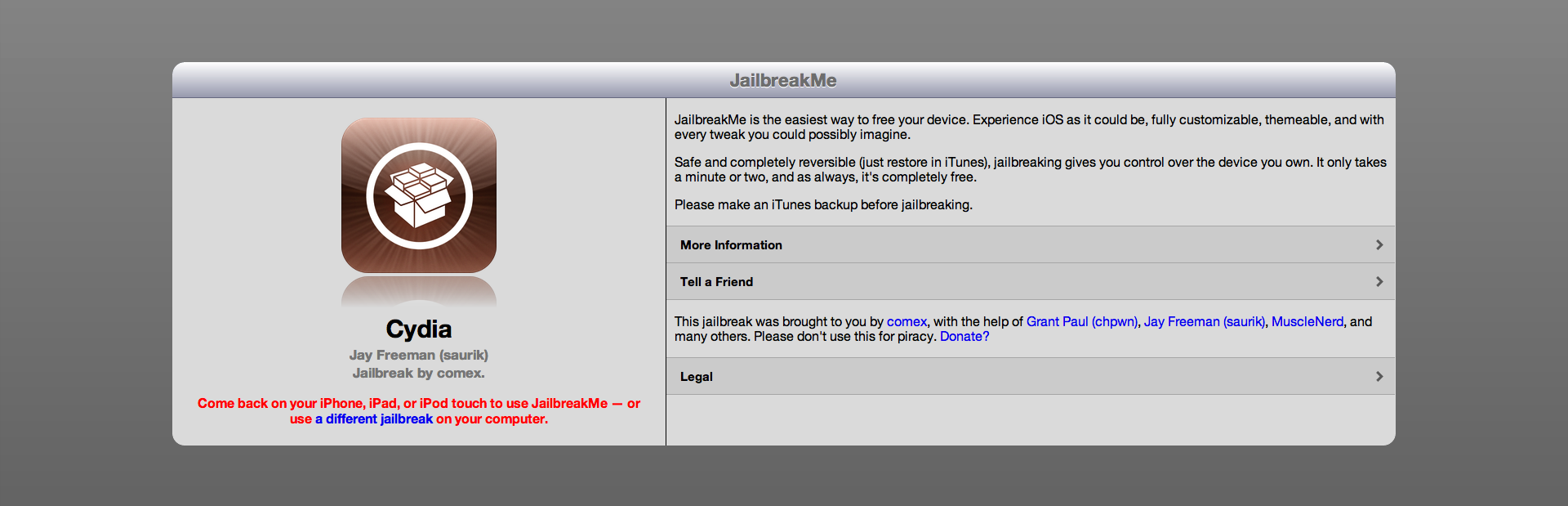 JailbreakMe 3.0